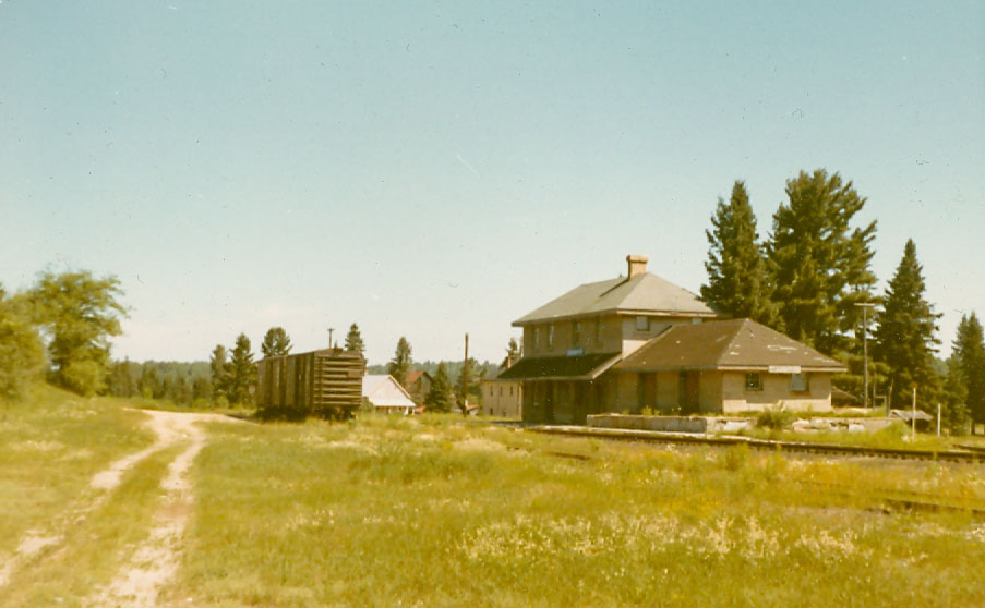 Maynooth Station c1971, photo by Brian Westhouse. The camera is looking to the northeast. The boxcars are sitting on a siding that runs through the station area, who's rails can be seen on the right, largely overgrown. On the extreme right a turnaround wye can be seen leading off the mainline to run behind the station.